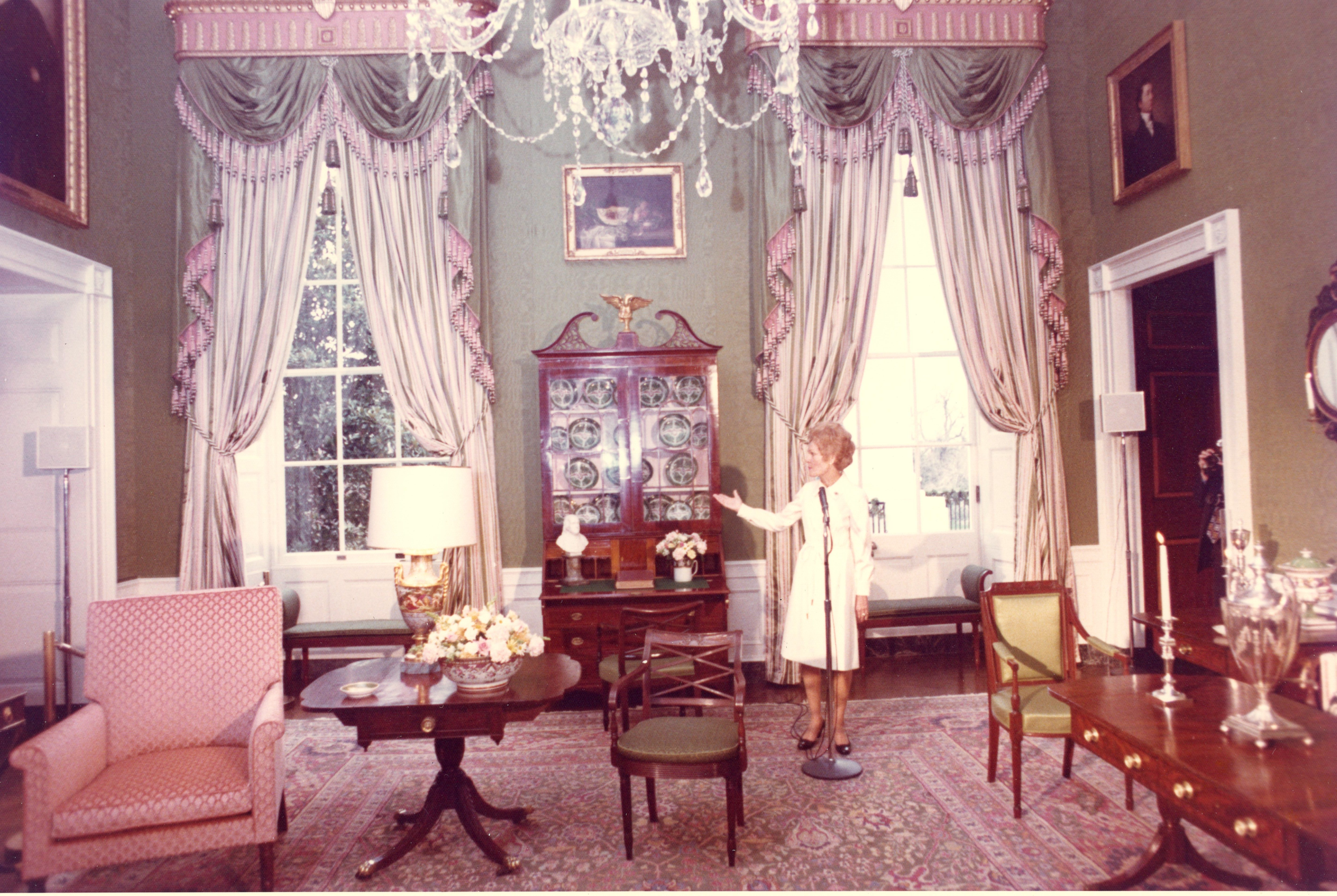 First Lady Pat Nixon unveils her changes to the White House Green Room, 1971. WHPO C8019-08a